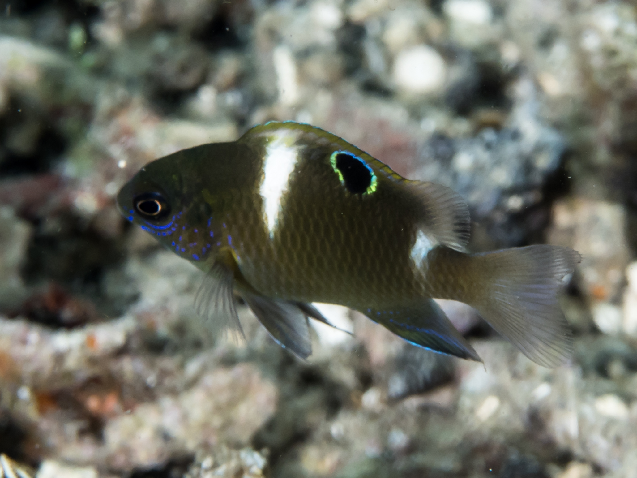 Lembeh, Indonesia - Whitespot damsel juvenile (Dischistodus chrysopoecilus)